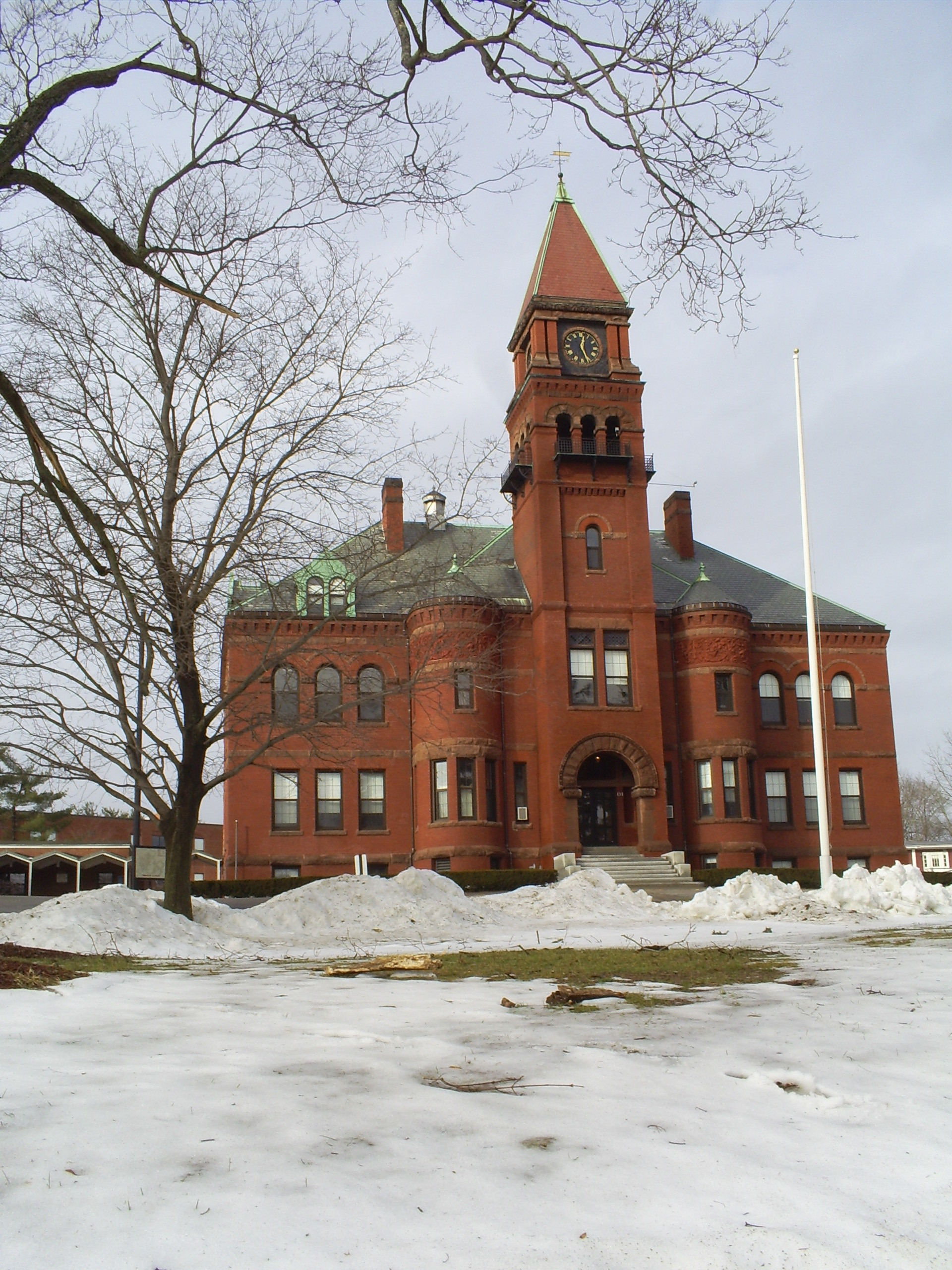 Photo by Craig Michaud.This is one of the main buildings on the campus of Pinkerton Academy in Derry, New Hampshire